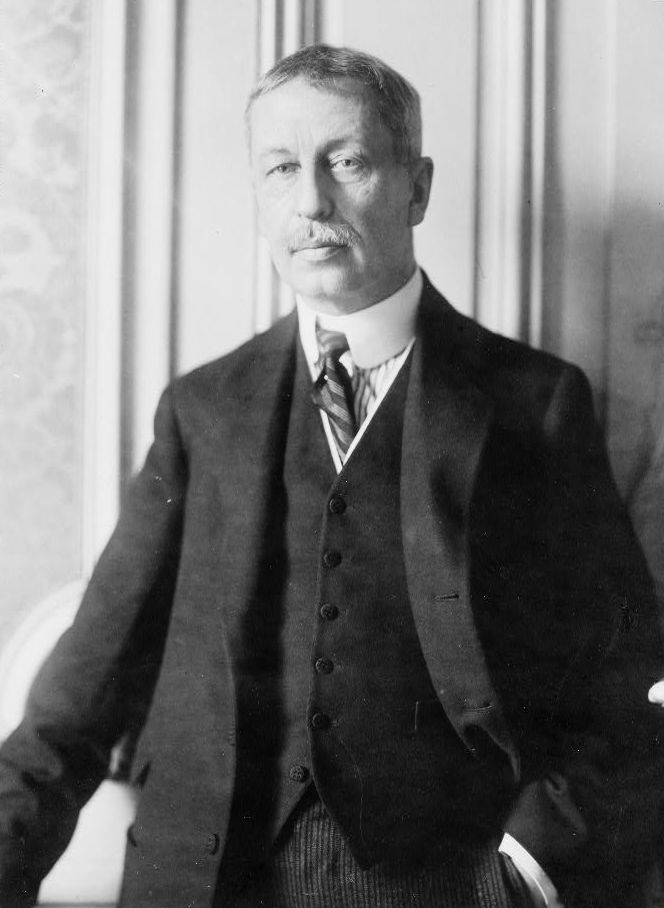 Mr. Ellis Dresel, the new chargé d'affaires, United States of North-America at Berlin